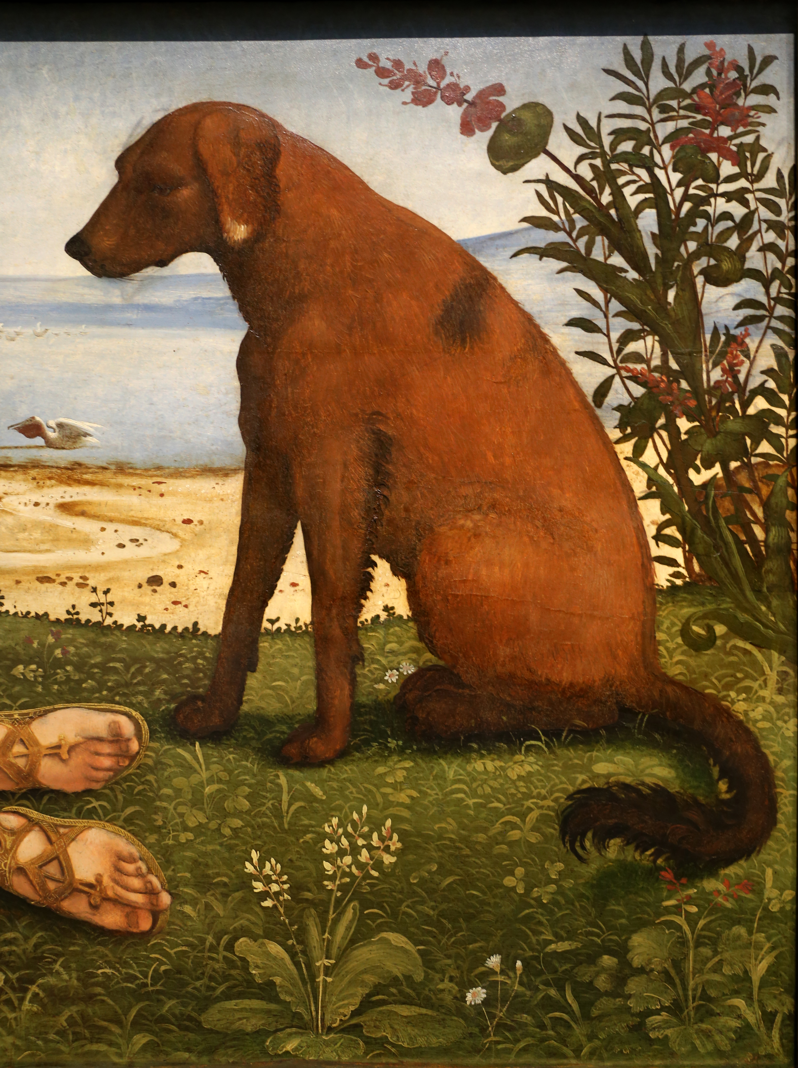 Death of Procris by Piero di Cosimo